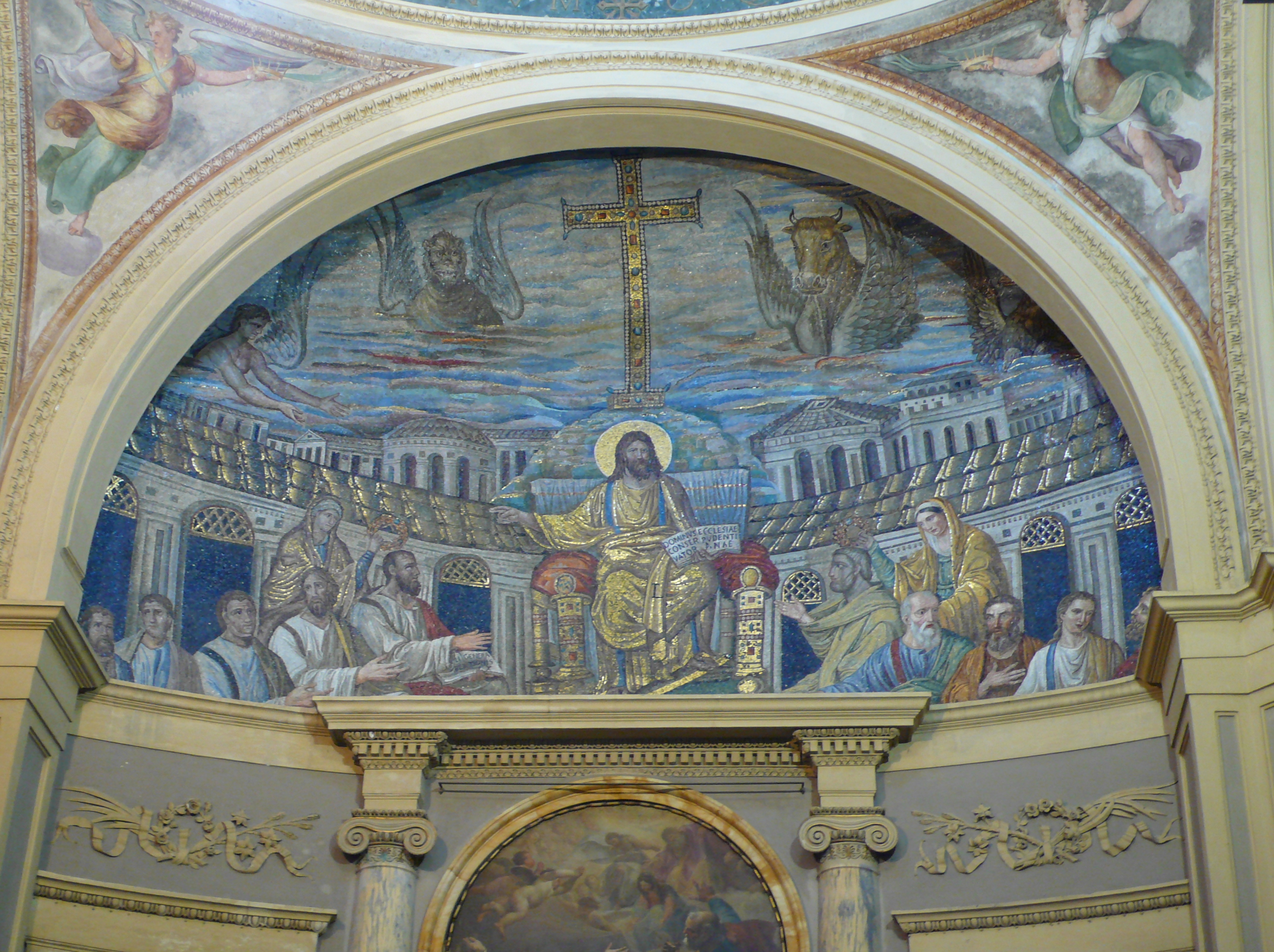 Apsis mosaic of Santa Pudenziana, Rome, c. 410 AD.